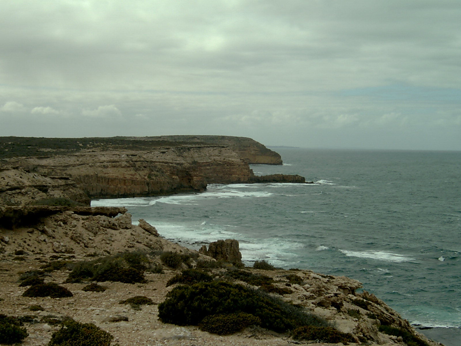 January 2007.